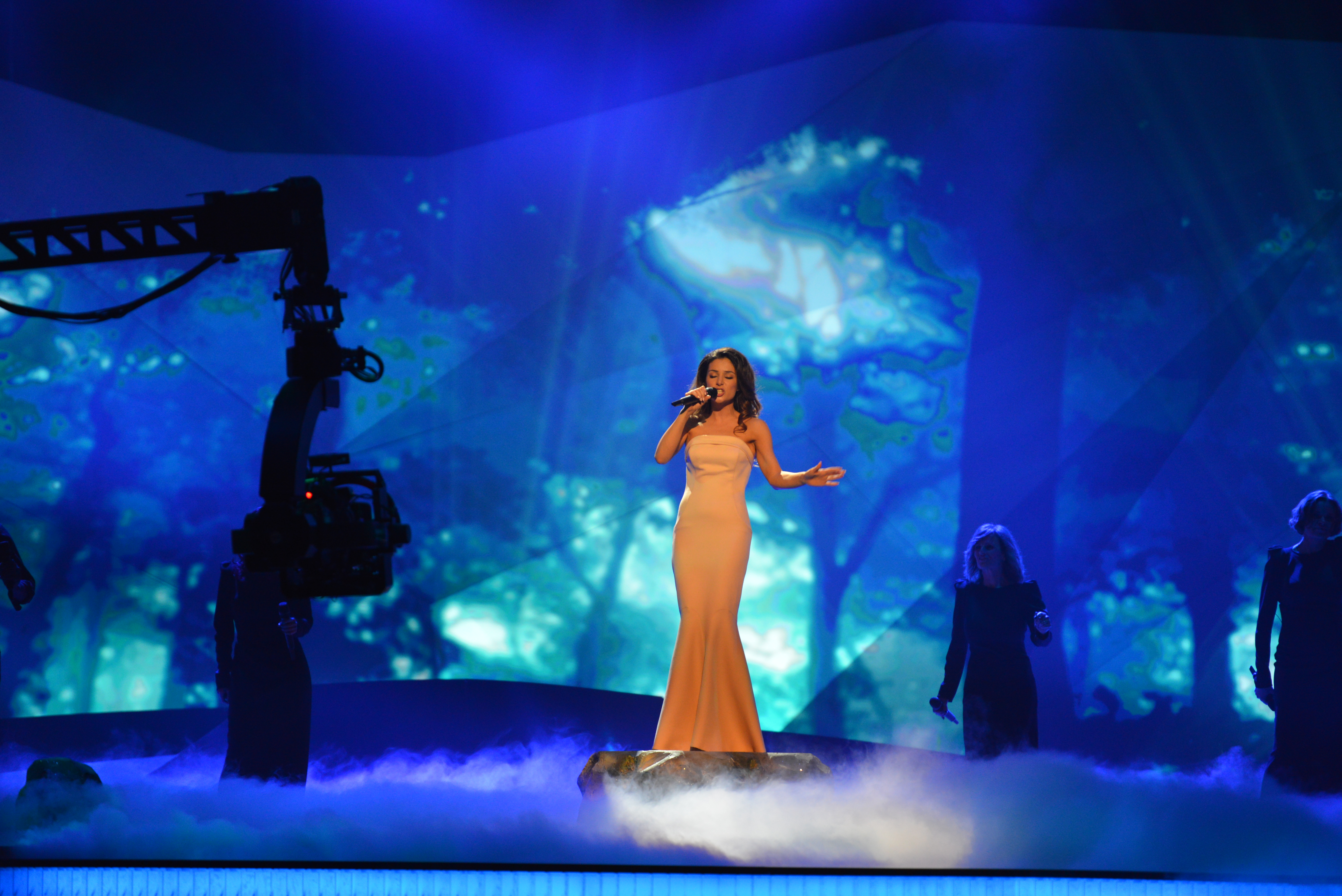 Zlata Ognevich representing Ukraine with the song "Gravity" during the first dress rehearsal of the first semi final of the Eurovision Song Contest 2013 Malmö. (Help translate this text)